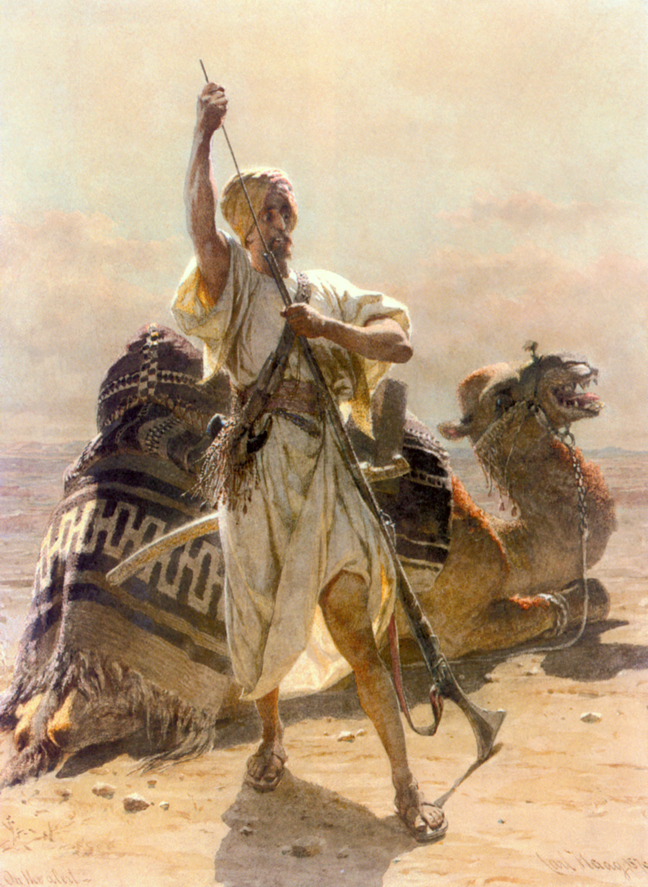 The Alert